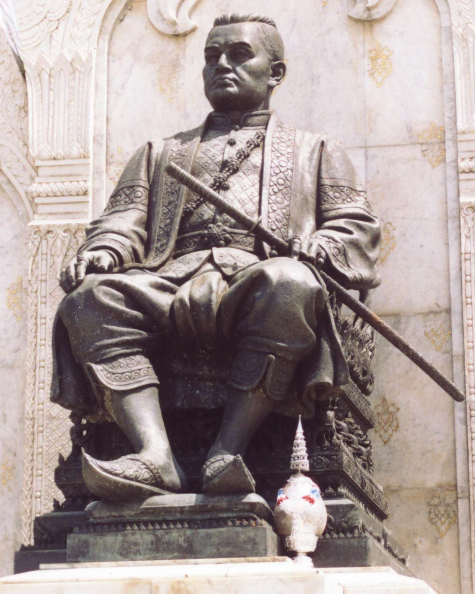 King Rama III statue in Bangkok (Thanon Ratchadamnoen Klang, near Golden Mount). The statue was erected in 1990 by the Fine Arts Department. The bronze statue is half-life size, and shows the King sitting on his throne. Photo taken by User:Ahoerstemeier on July 12, 2003.